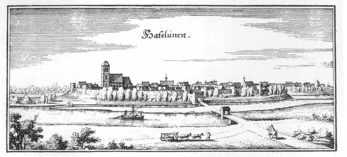 This is a scan of the historical document: Source